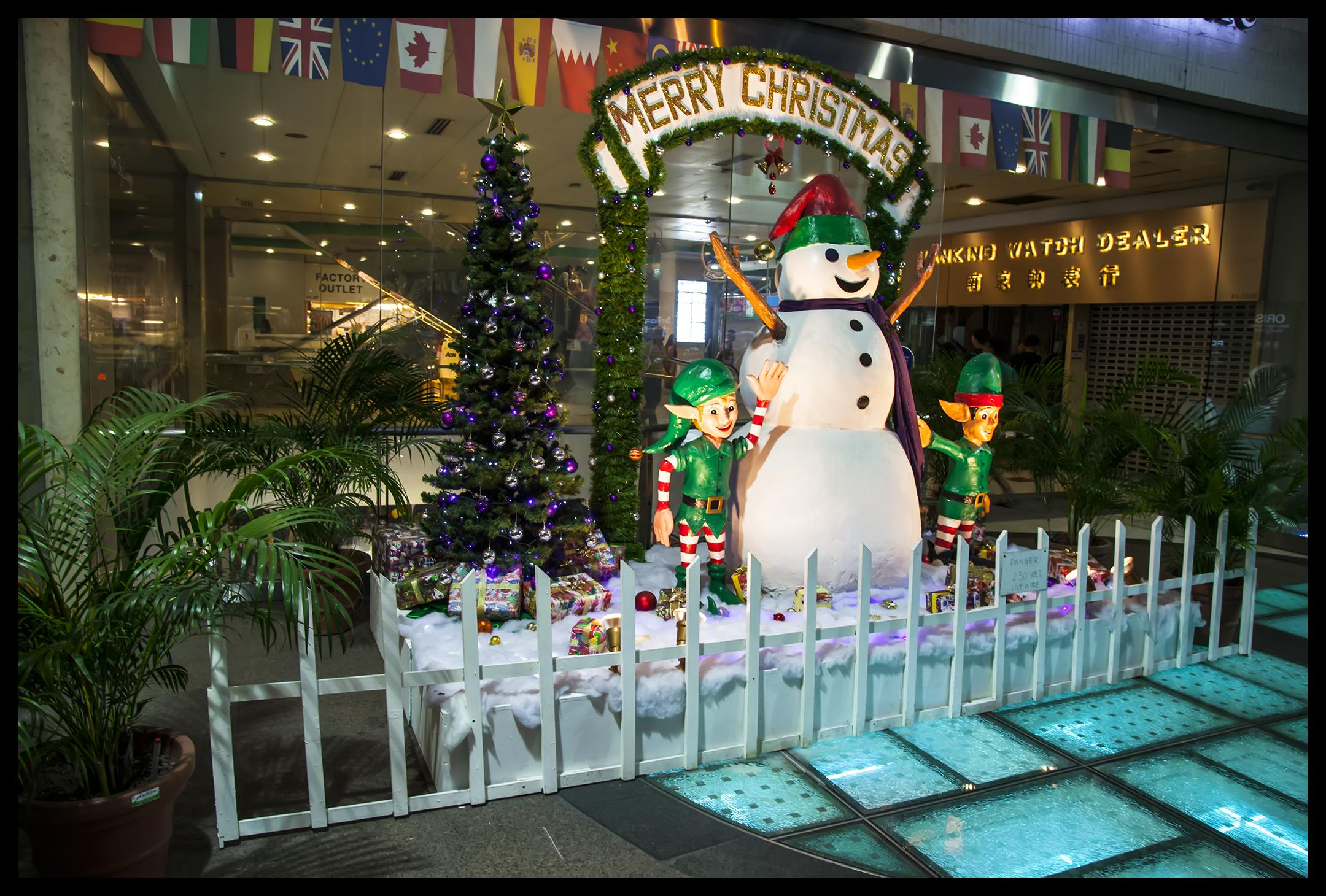 Christmas display outside my Singapore Hotel